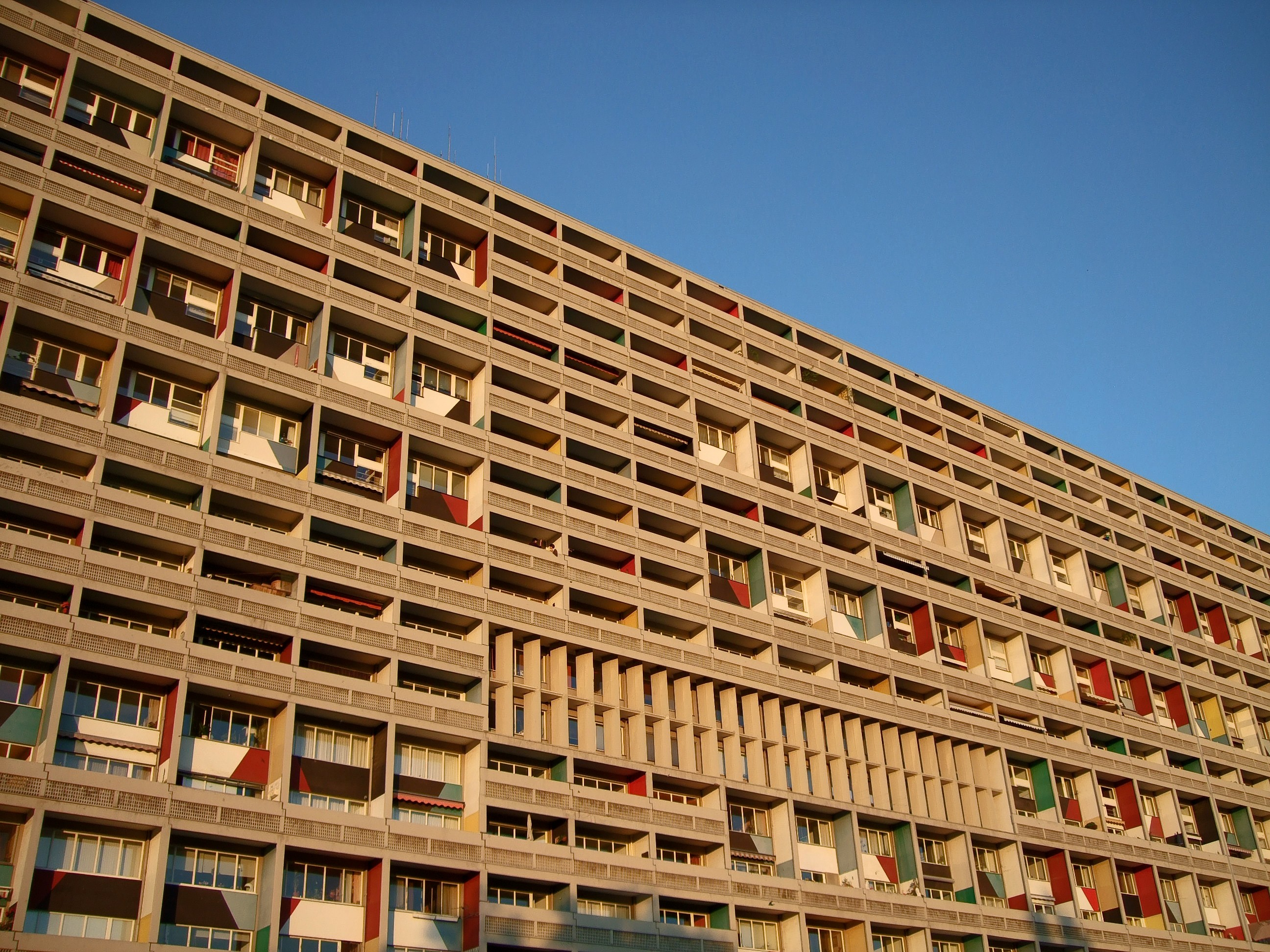 Unité d'habitation, type Berlin ("Corbusierhaus") by Le Corbusier, Flatowallee 16, Berlin